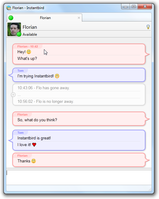 Instantbird chat window screenshot. License changed from "feel free to use these" (implied GPL) to CC-BY-SA-2.0 in late 2013.